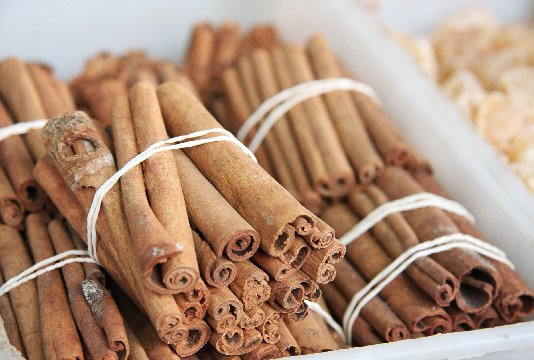 Cinnamon